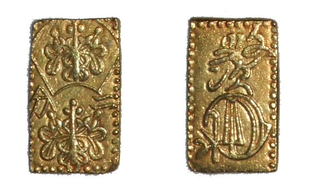 Sobun-2buban